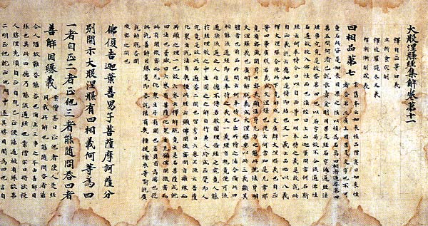 Instruction manual of the Nirvana Sutra (大般涅槃経集解, daihatsunehankyōshūge)